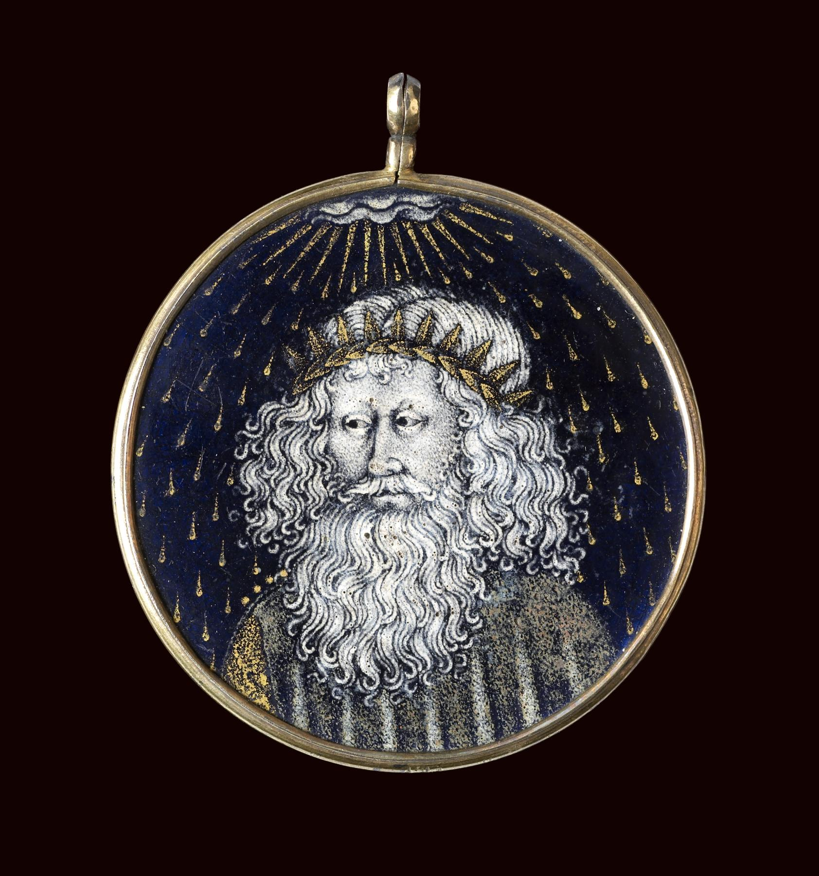 According to legend, the Roman emperor Augustus asked a prophetess if there was anyone greater than himself. It was the day of Christ's birth, and the answer came to the emperor in a vision: a golden circle around the sun, in the middle of which was a beautiful virgin and a child. One side of the pendant shows Augustus and the other, the Virgin and Child. The sophisticated style, superb workmanship, and imagery connect this piece to the Parisian workshop of Jean and Paul de Limbourg from Guelders (in the northern Netherlands), who created some of the finest International Gothic manuscript paintings. They initially trained as goldsmiths and their younger brother Arnold (of whom no works are known) was a goldsmith in Guelders. The enamelist who created this masterpiece and a few related works was an accomplished painter as well as a goldsmith.